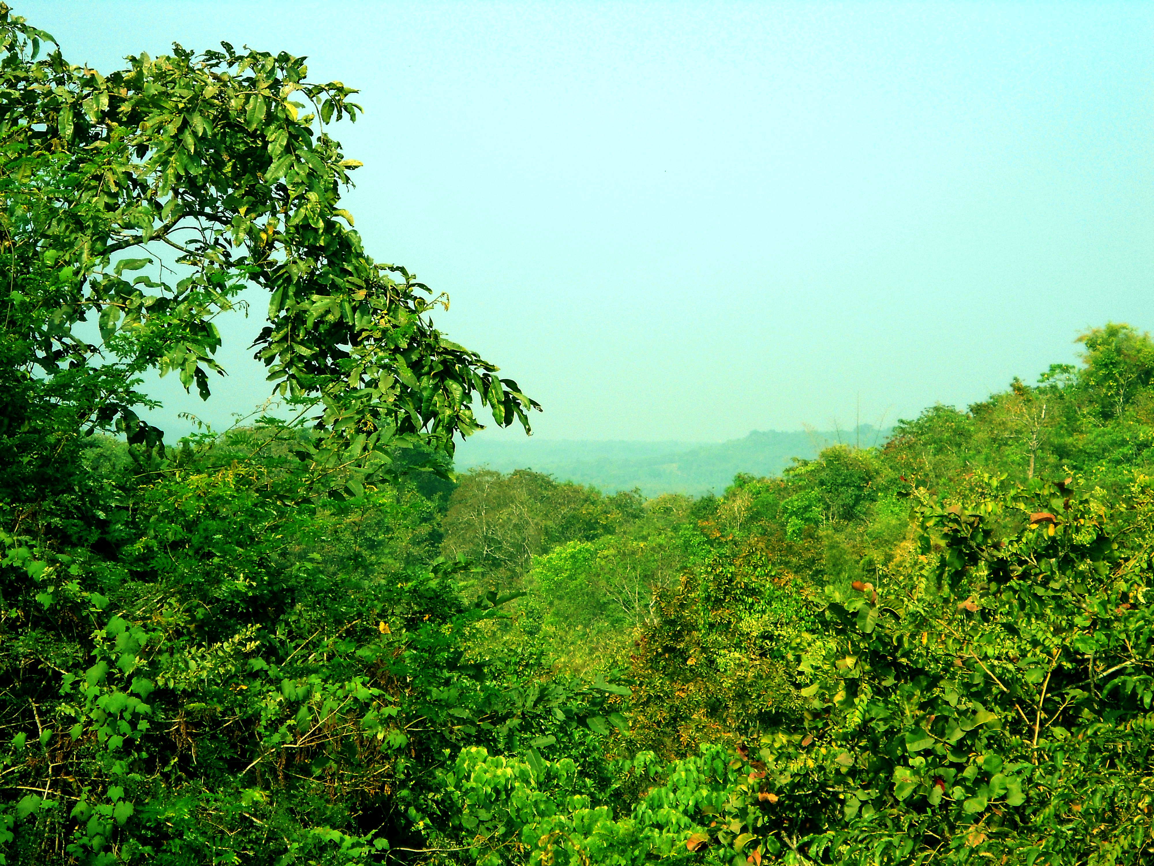 Forest on Eastern Ghats at Chintoor in Khammam district, Andhra Pradesh